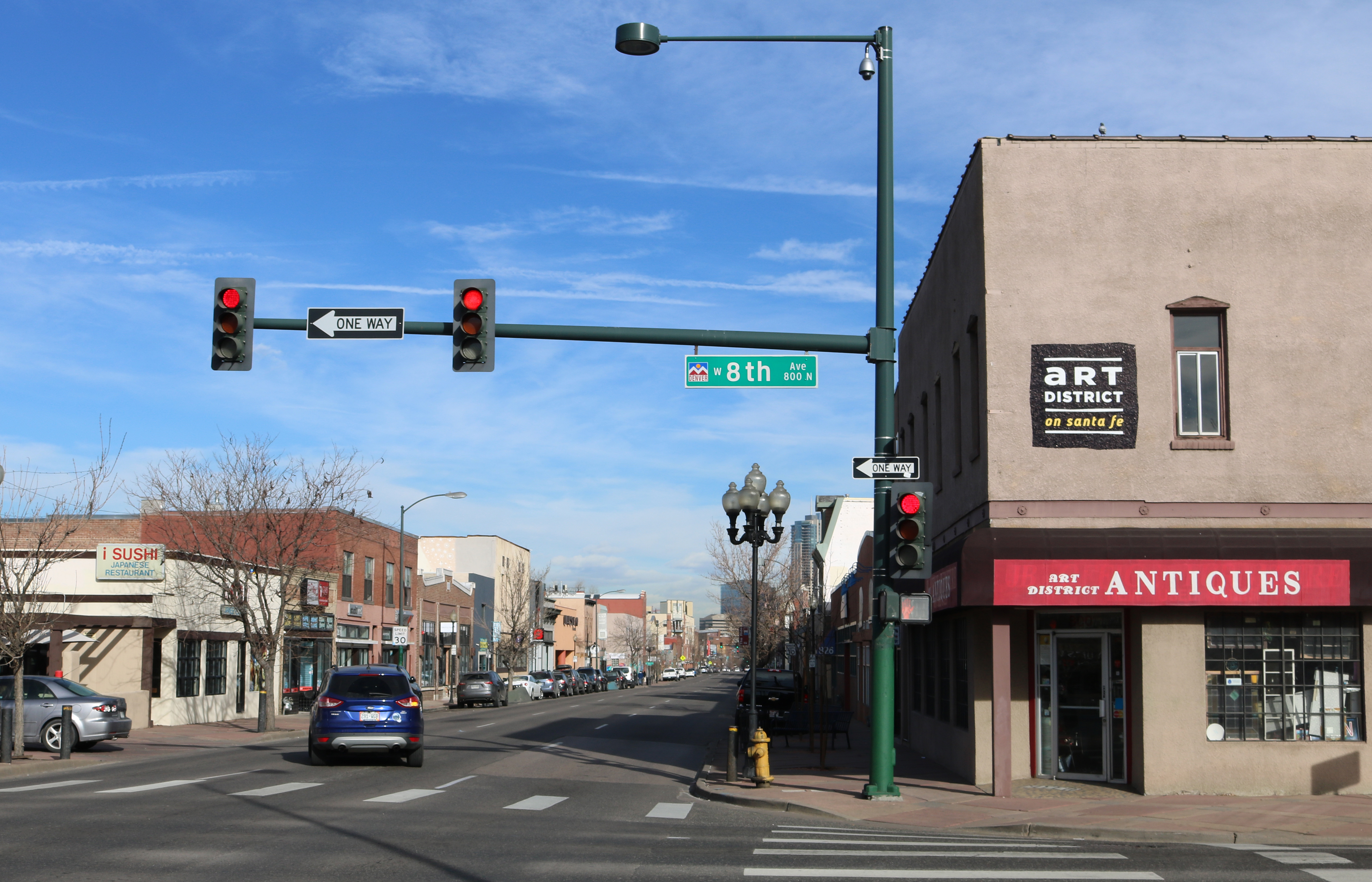 Denver's Art District on Santa Fe, in Denver, Colorado. The view is to the north, from 8th Avenue, towards downtown Denver, along Santa Fe Drive.